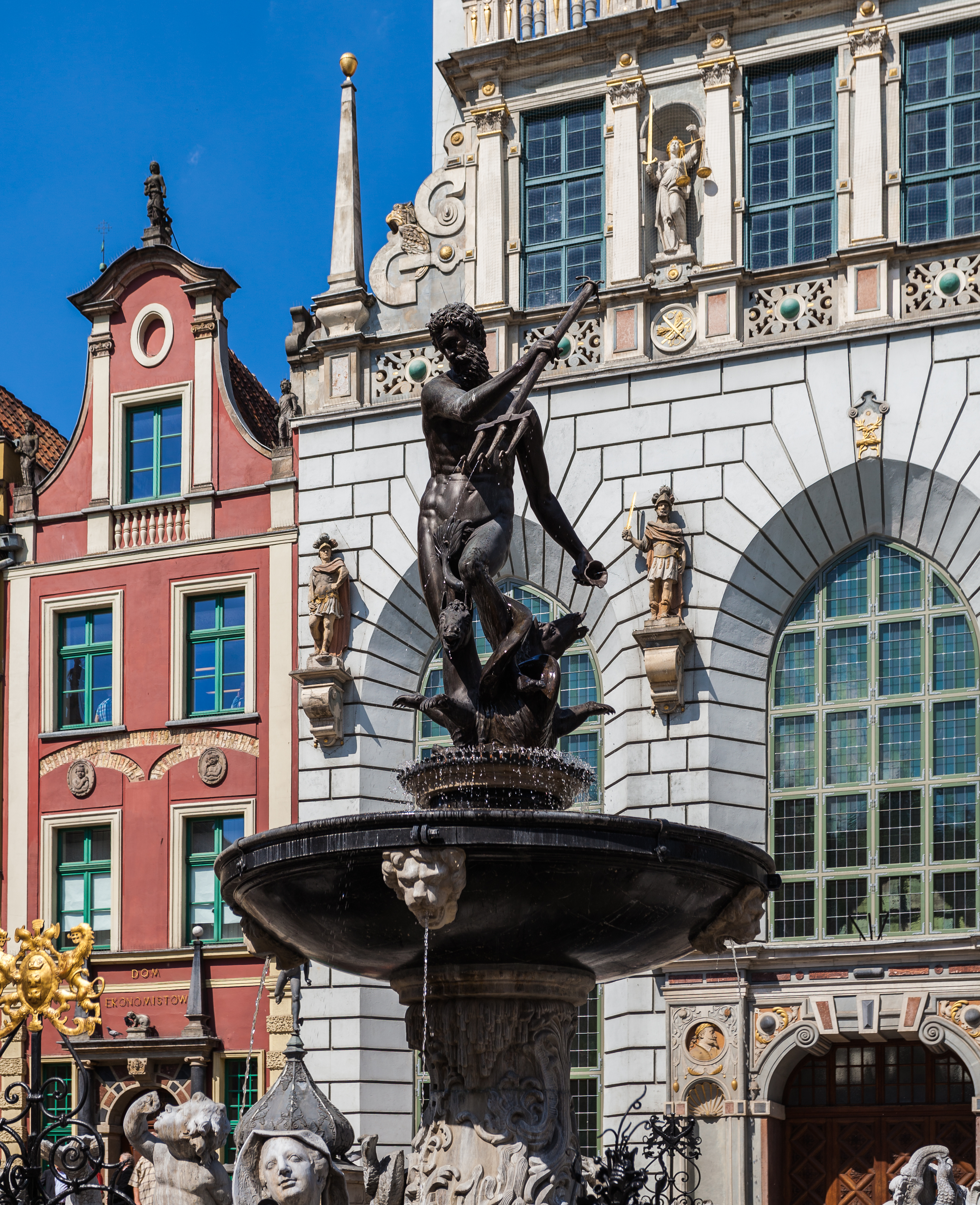 Neptune Monument, Gdansk, Poland 02.1967.